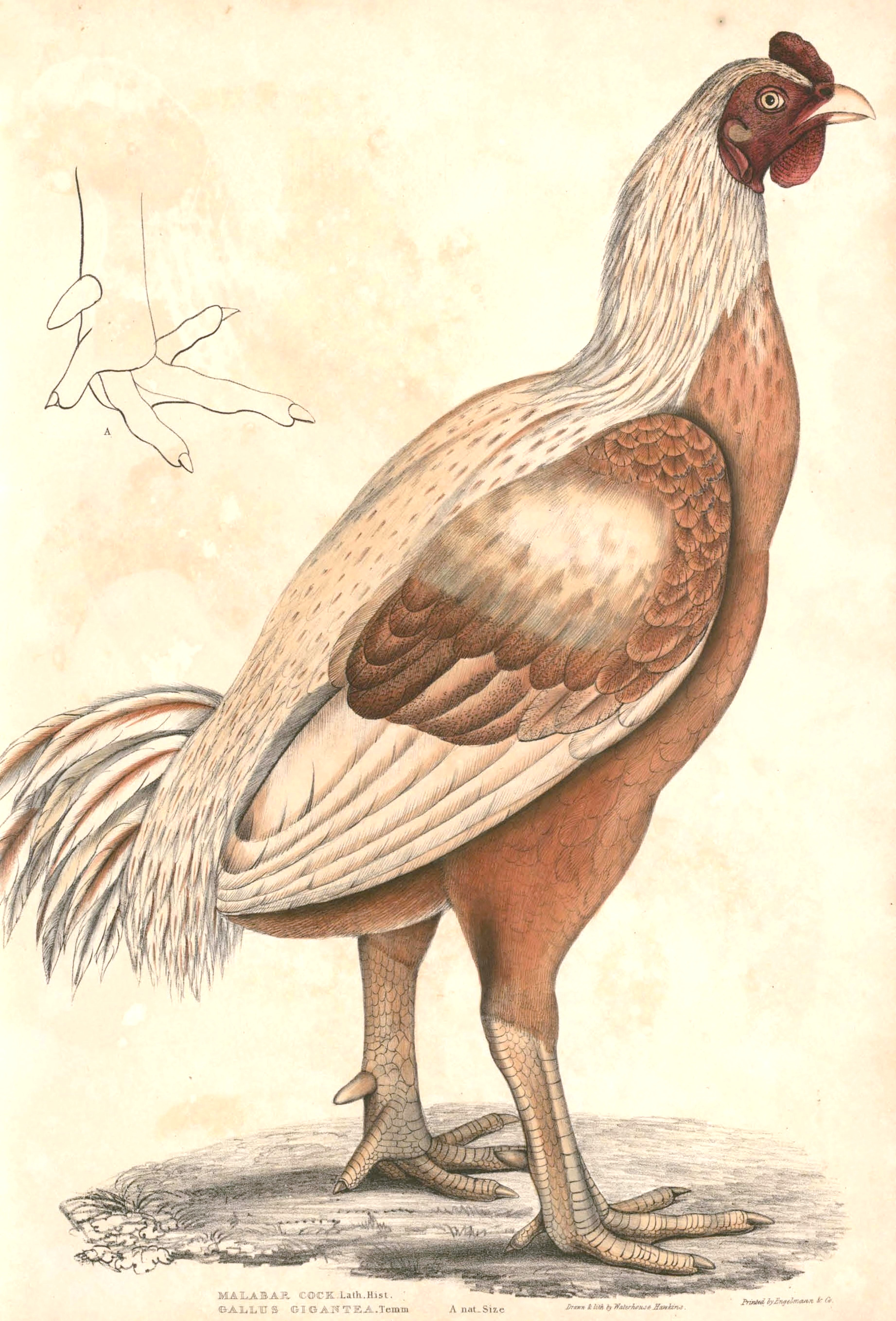 « Gallus gigantea » = Gallus giganteus - male